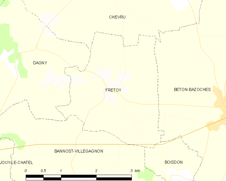 Map of French municipality Frétoy